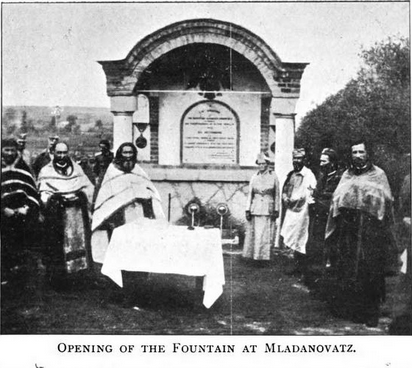 Scottish Women's Hospital - Mladanovatz - At Mladanovatz, 1915, the Serbians have erected a fountain with the inscription: "In memory of the Scottish Women's Hospitals and their founder, Dr. Elsie Inglis."